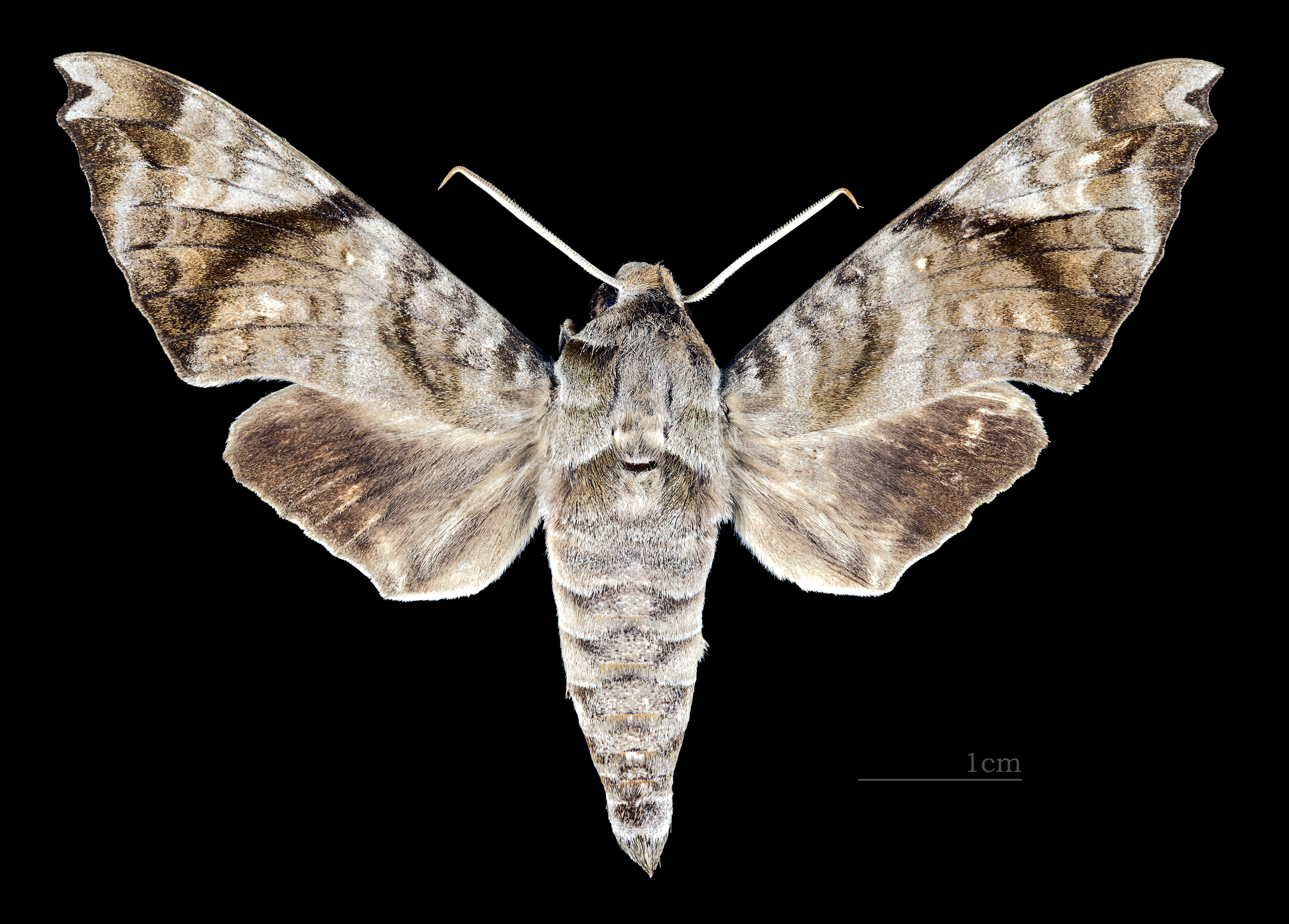 Acosmeryx pseudomissa - Dorsal side Collection of the Mathematician Laurent Schwartz